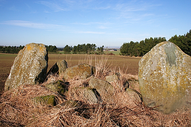 St Brandan's Stanes A close look at the stones, with Bankhead beyond in the gap in the trees.